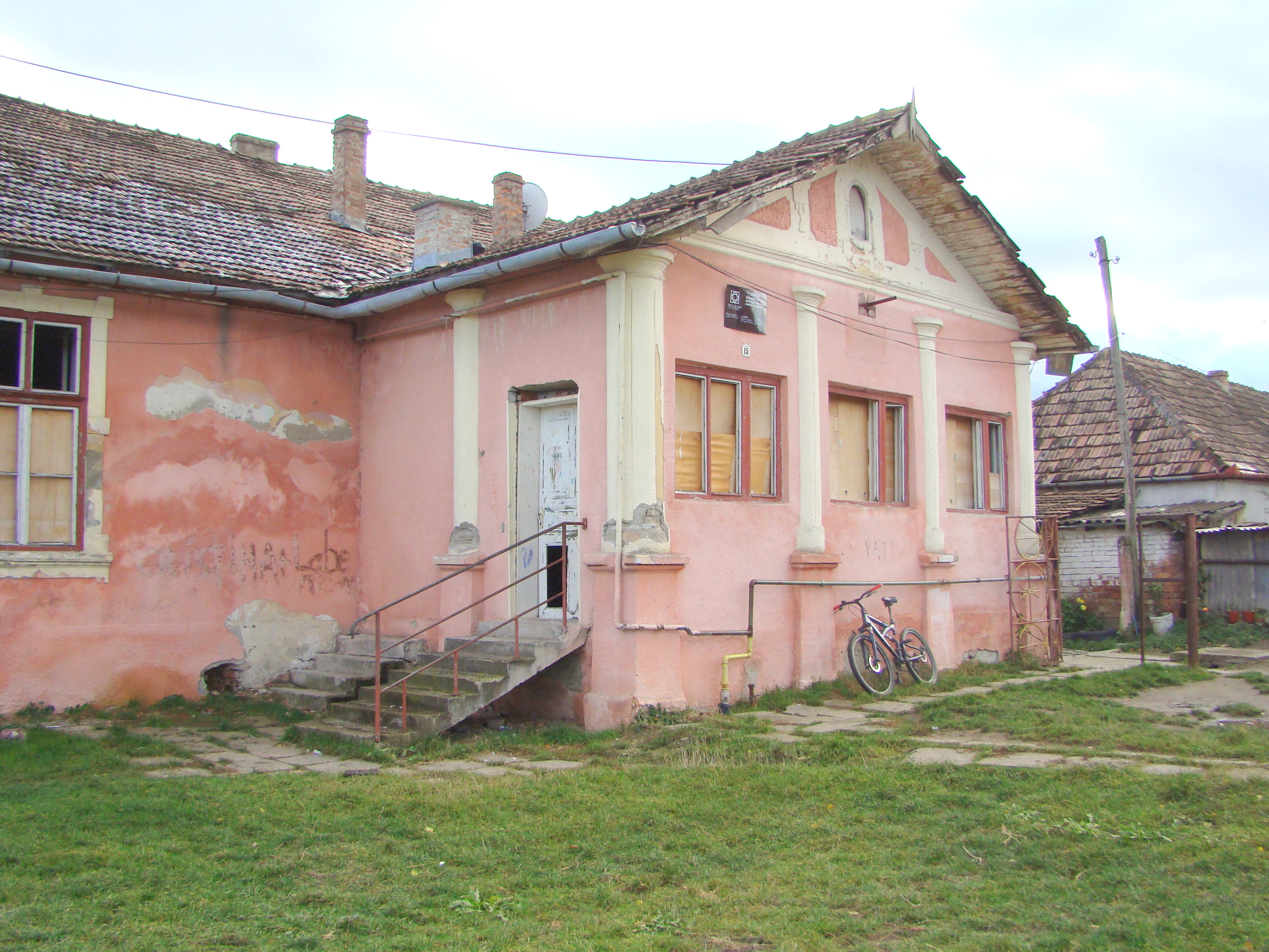 Szilvássy manor in Târnăveni, Mureş county, Romania